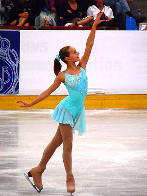 Ekaterina Kozireva during her free skate at the 2006 Junior Grand Prix event in The Hague, Netherlands